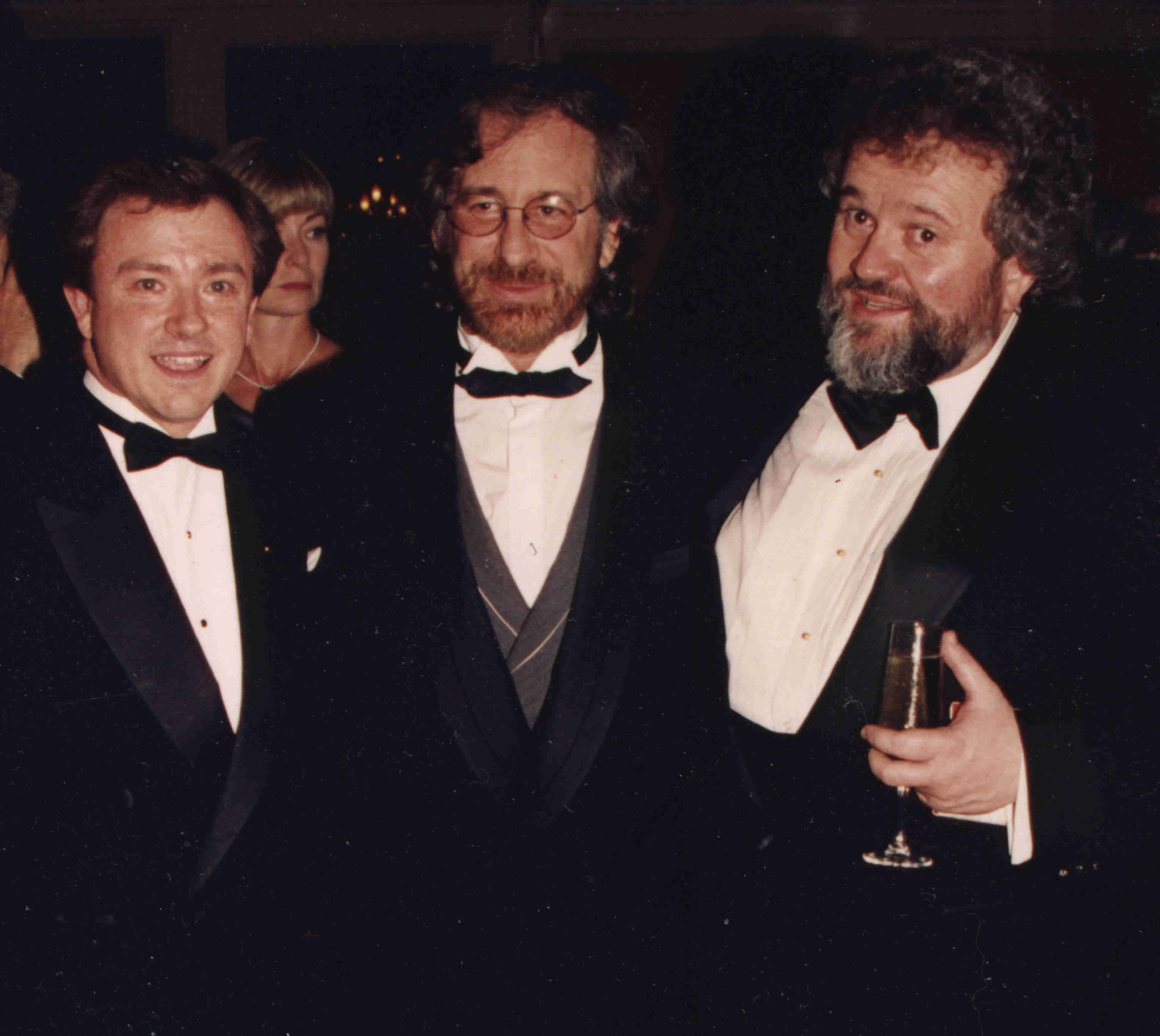 Peter Deyell, Steven Spielberg, Allen Daviau